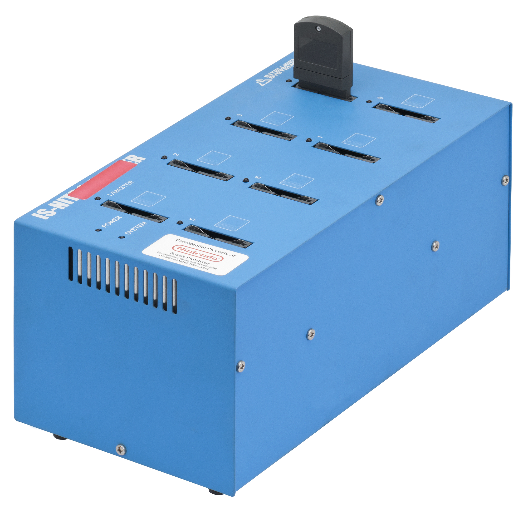 An Intelligent Systems Nitro Burner, used for development and testing of Nintendo DS games. Intelligent Systems manufactures official development systems for Nintendo, like this ROM burner. This will burn the game onto a cart so it can be tested on a retail/debugger Nintendo DS. I'm assuming that it's called the Nitro Burner, as there is a sticker that covers the actual name of it. The Nintendo DS was originally called internally as "Project Nitro" during its development.